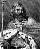 Portrait of Rudolph of France